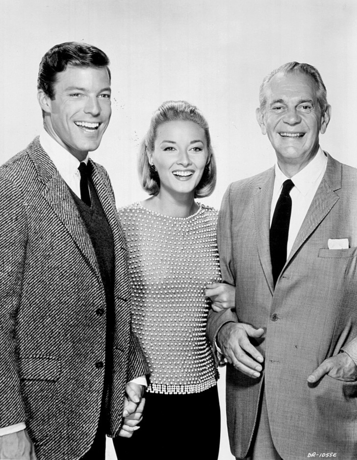 Photo of Richard Chamberlain (Dr. Kildare), Daniela Bianchi and Raymond Massey (Dr. Gillespie) from the television program Dr. Kildare. This episode takes the doctors to Rome for information on a medical breakthrough. There is also time for romance for both; this was Bianchi's US debut.